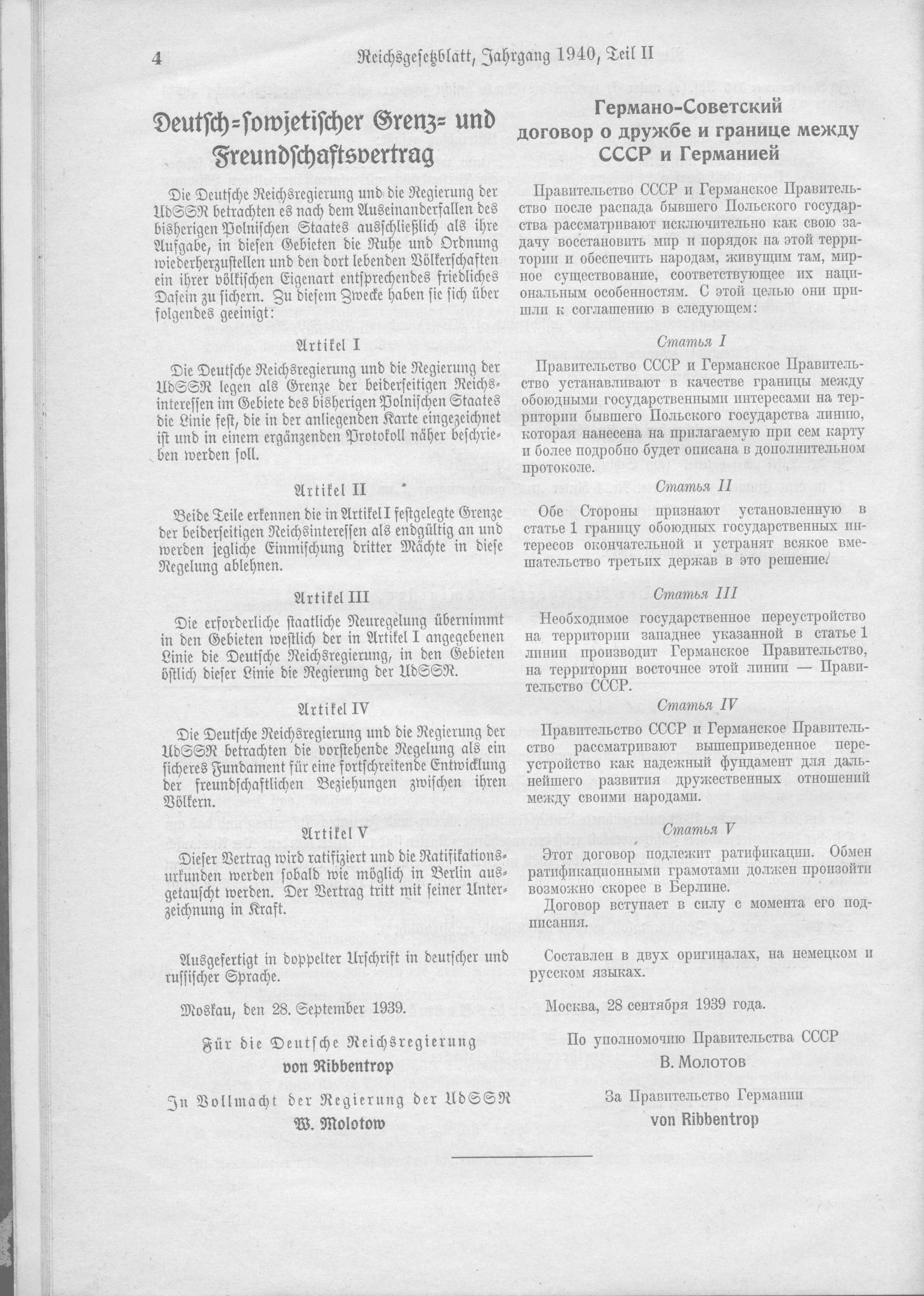 Scan from the Imperial Law Gazette of Germany, 1940, part 2